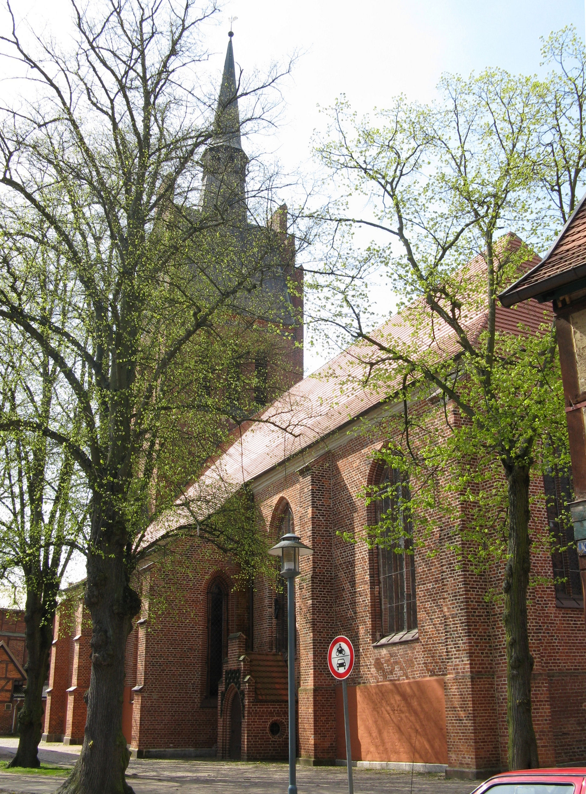 Church in Grabow, district Ludwigslust, Mecklenburg-Vorpommern, Germany